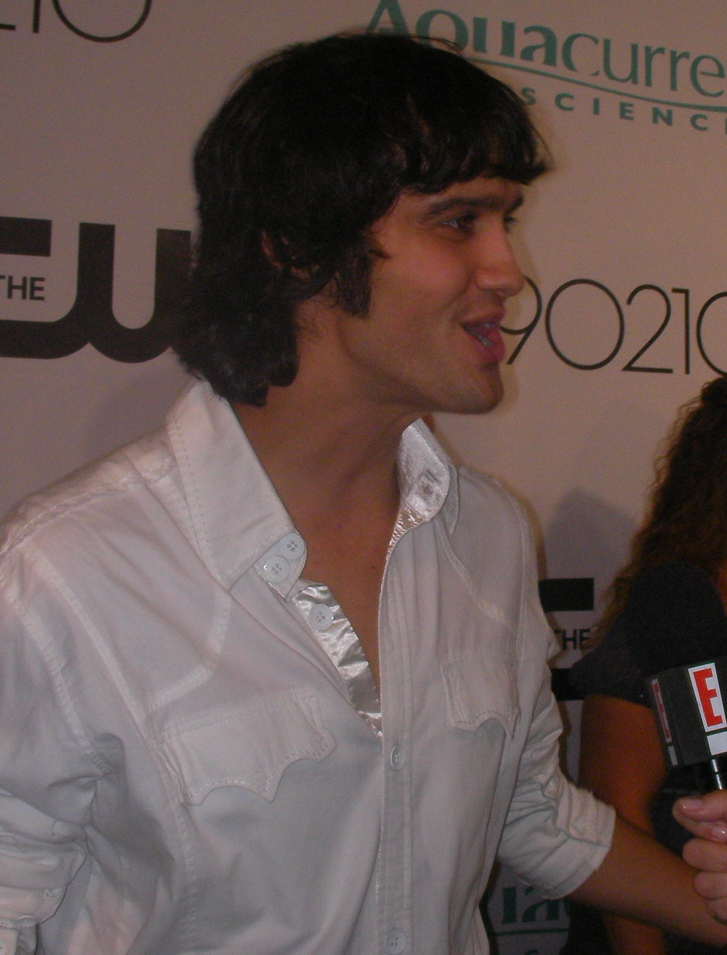 Premiere party for CW's "90210," Malibu, California - Aug. 23, 2008